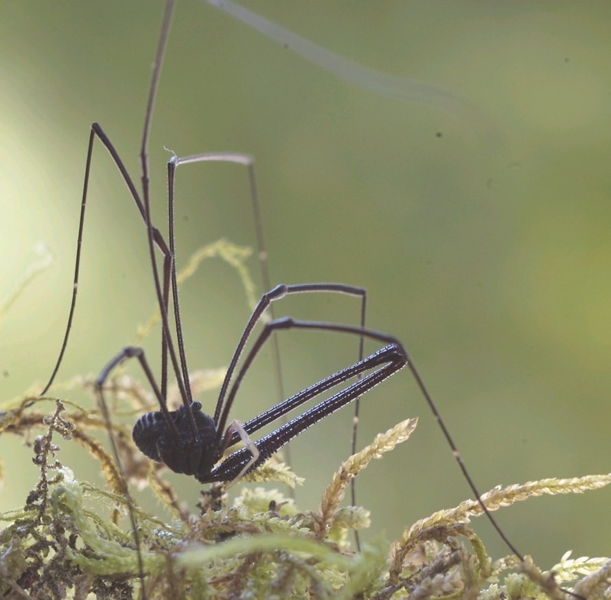 Pantopsalis listeri, photographed by Simon Pollard.